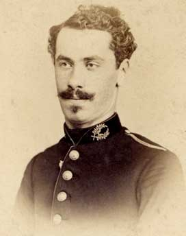 The French mining engineer Emile PARAF (1846-1924)